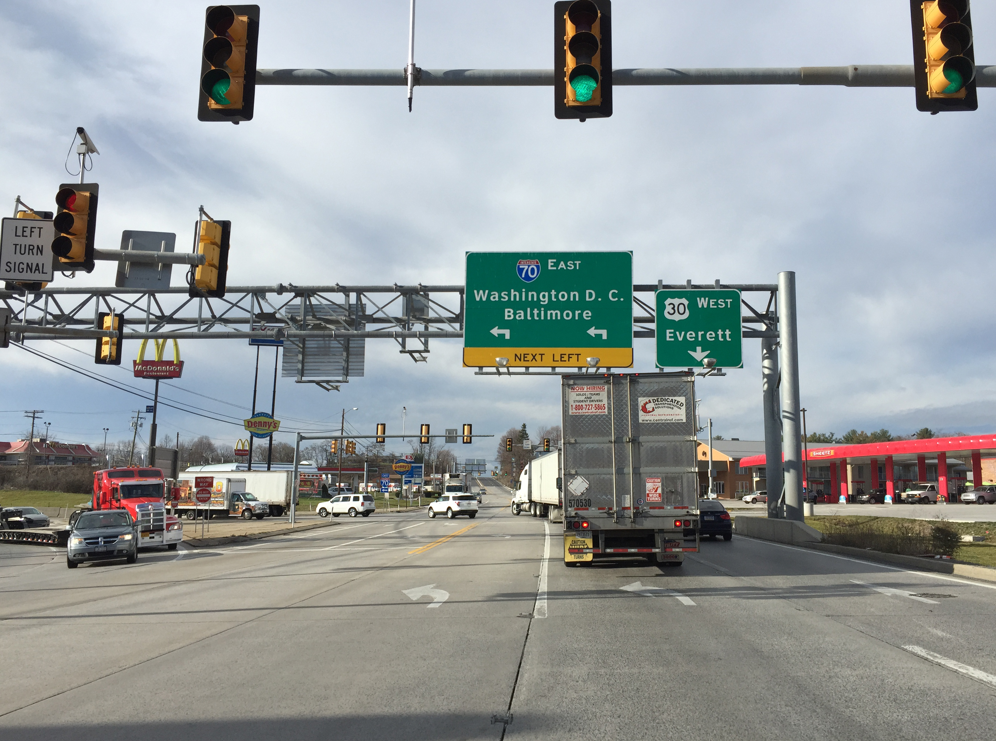 View east along the non-freeway portion of Interstate 70 and west along U.S. Route 30 in Breezewood, Pennsylvania